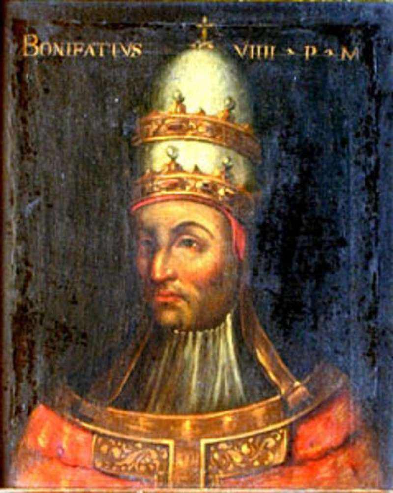 picture of Pope Boniface (or Bonifatius) VIII